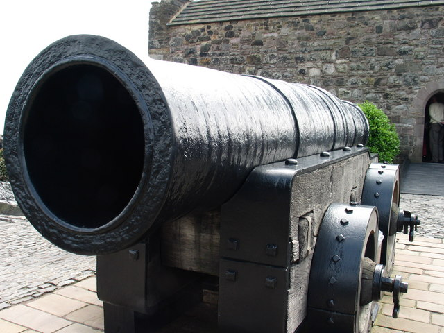 Mons Meg - Edinburgh Castle This bombarde - or front-loading medieval cannon/mortar - sits outside St. Margaret's Chapel at the topmost courtyard in Edinburgh Castle. This monstrous weapon would shatter walls of buildings, and take out siege-guns of the enemy in battle.